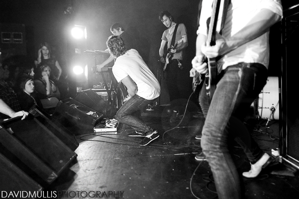 The photo shows Emarosa performing live in late 2008. It is under the Creative Commons Attribution 2.0 license.